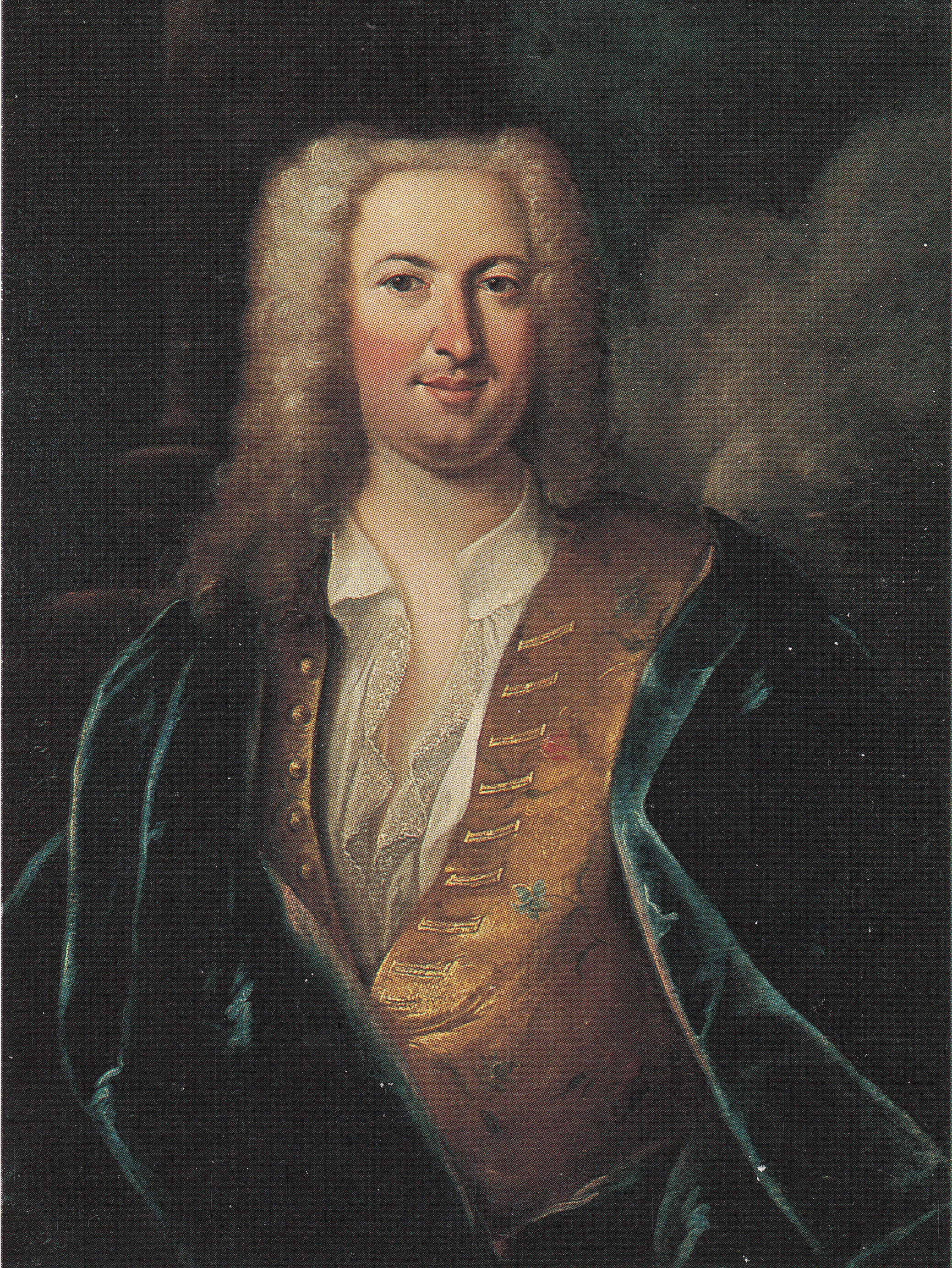 Count Axel Wrede Sparre